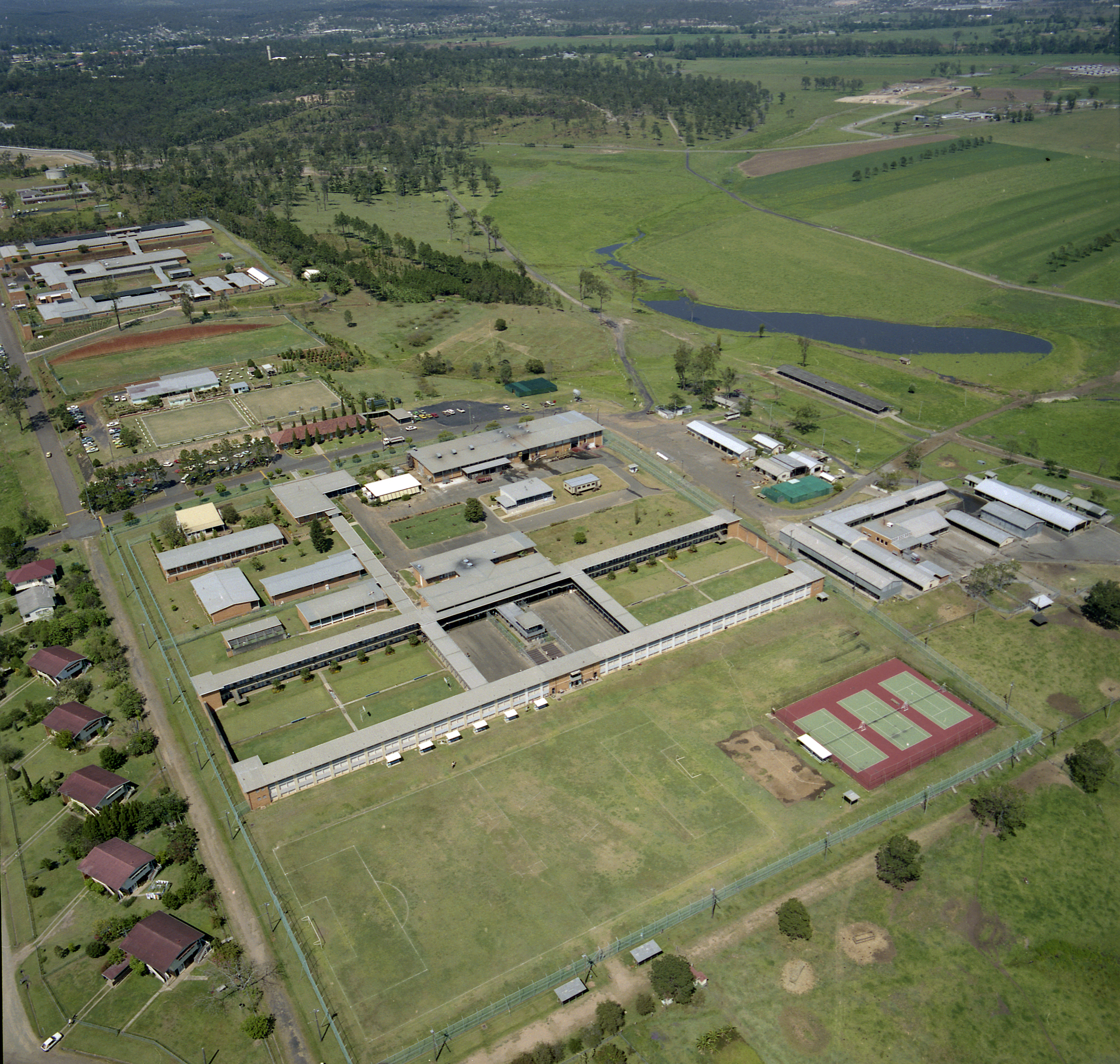 Brisbane Correctional Centre, formerly Sir David Longland Correctional Centre, was opened in 1988. Queensland State Archives, Digital Image ID 5721